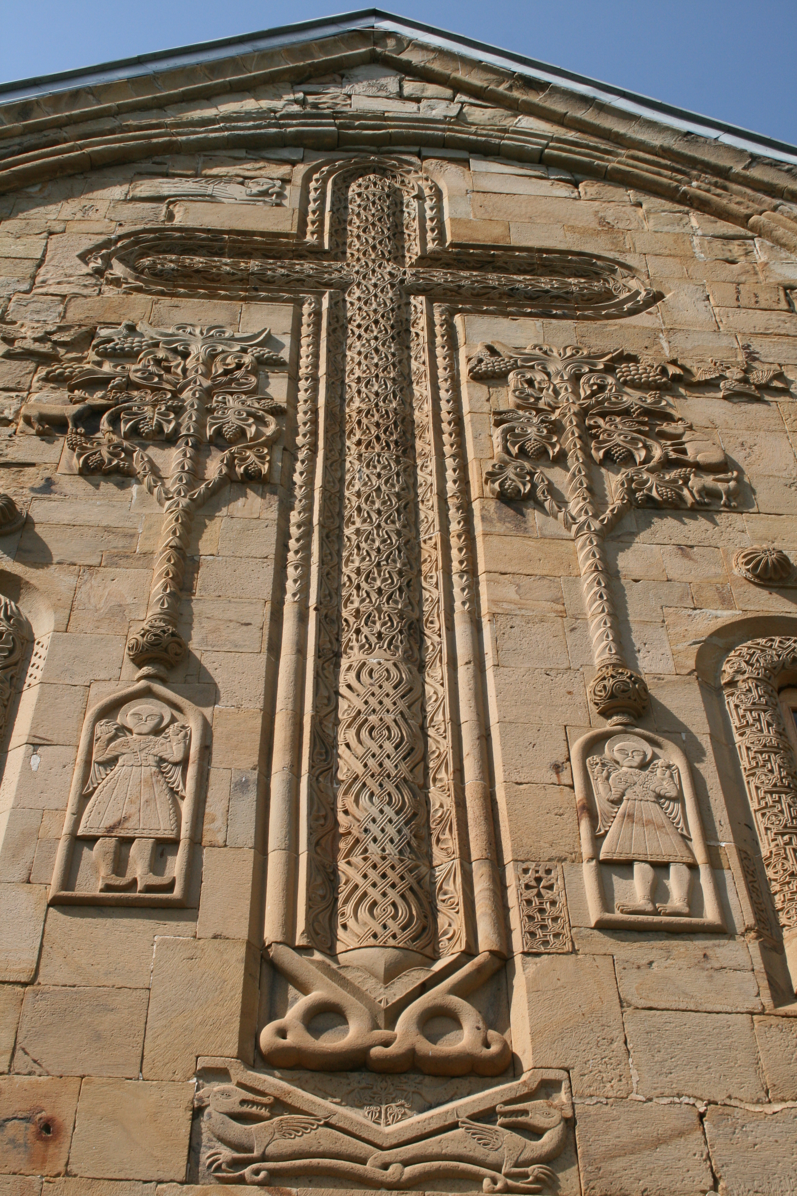 An ornate cross on the facade of Ananuri castle in Georgia.